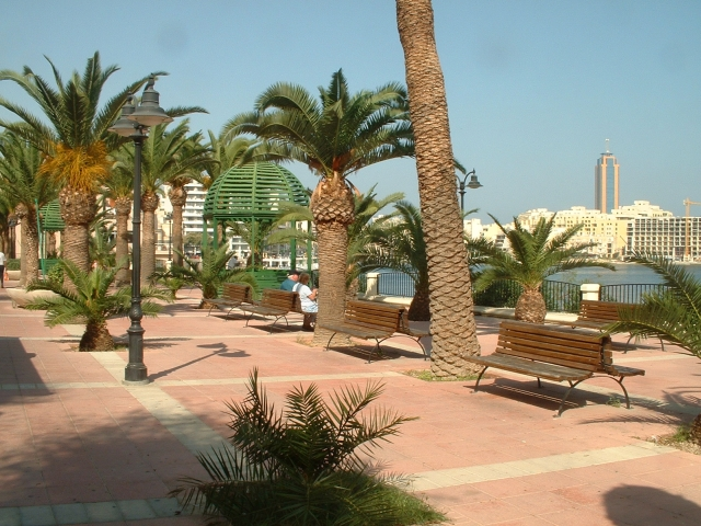 Boardwalk of Sliema.